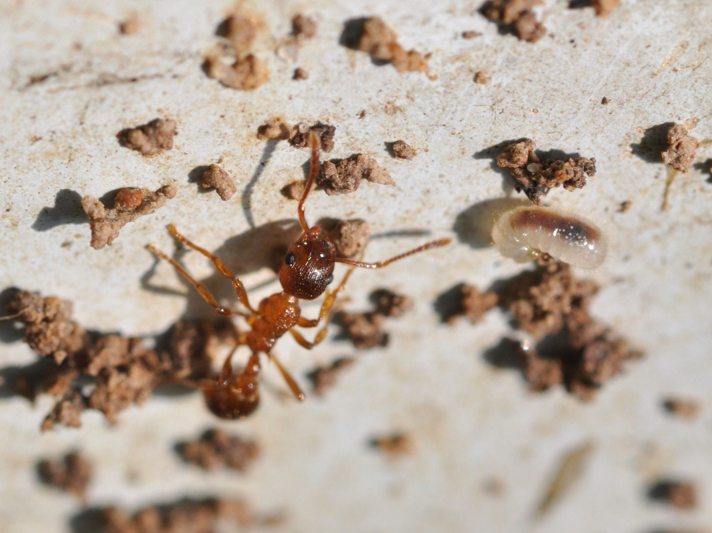 European fire ant Myrmica rubra in Kirchwerder, Hamburg.